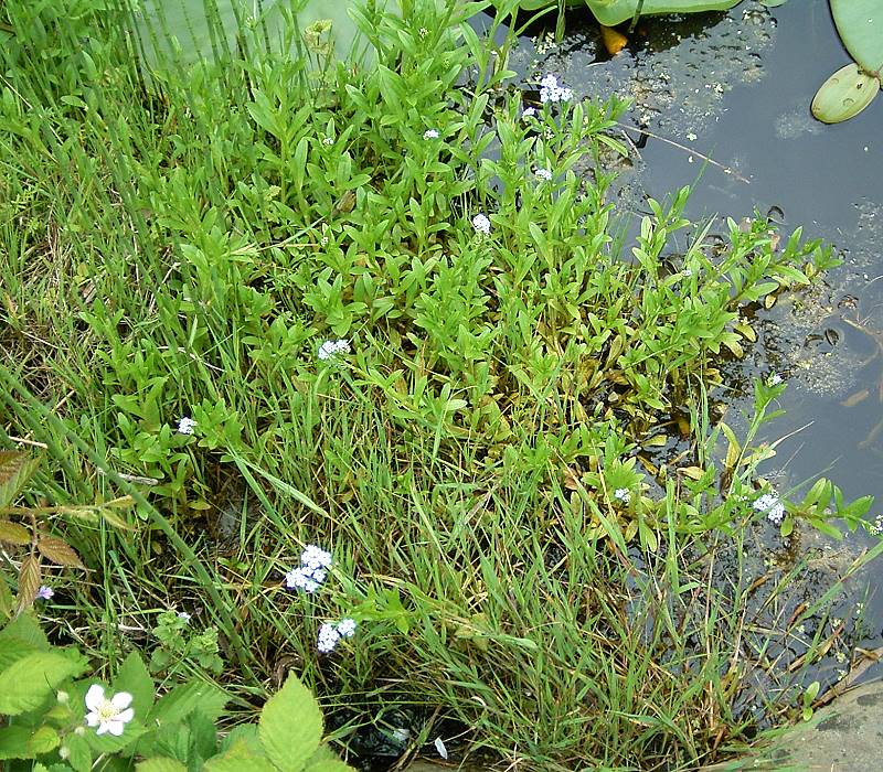 Myosotis scorpioides